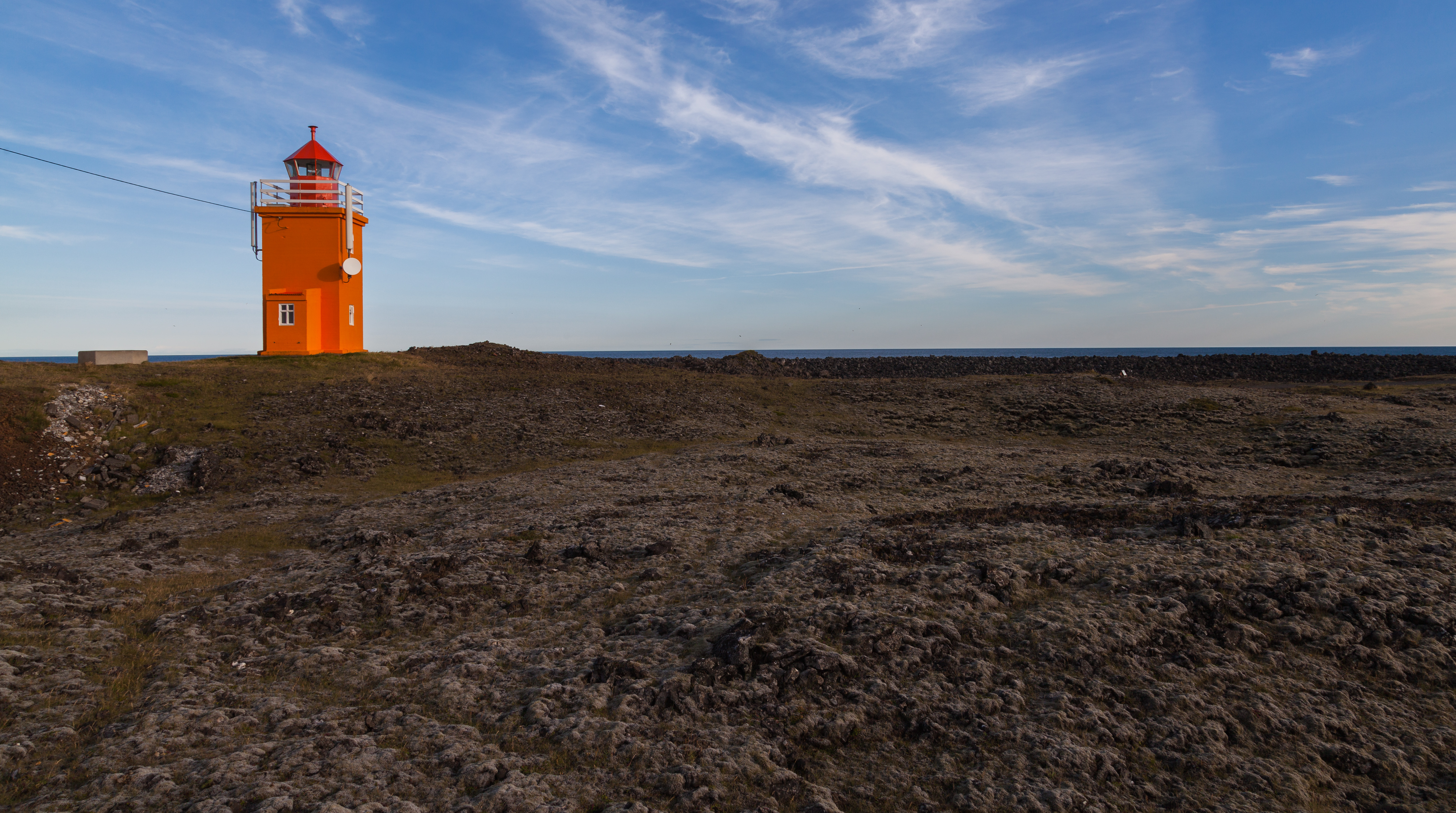 Hopsnes lighthouse, Suðurnes, Iceland